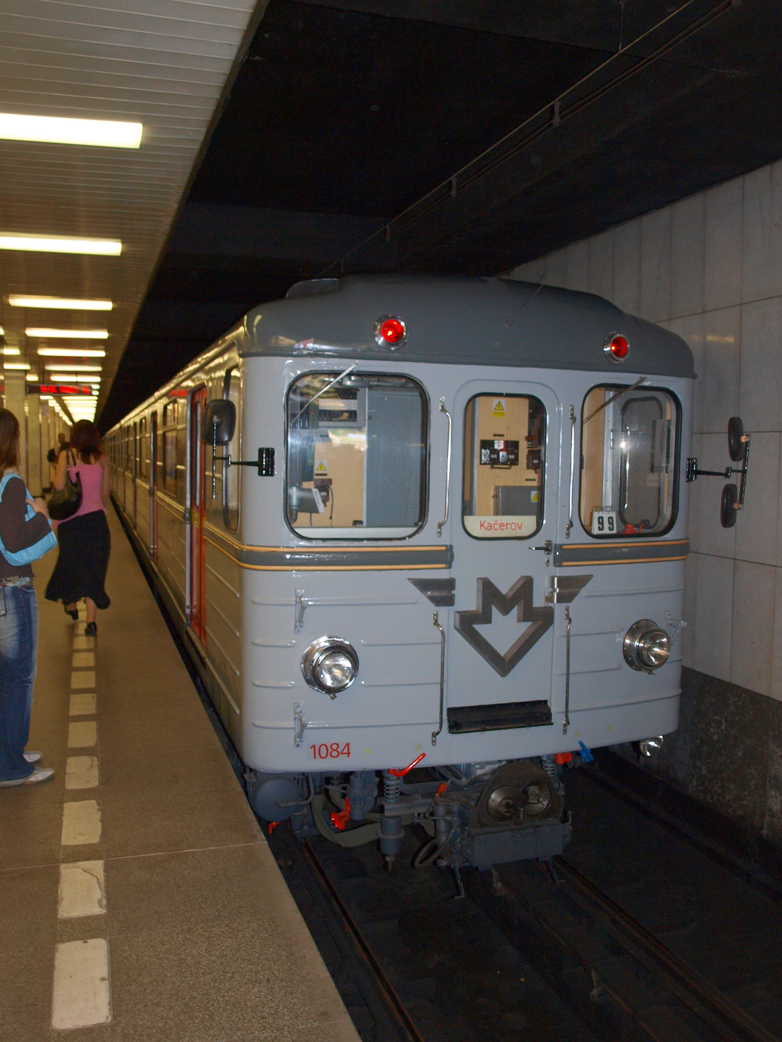 Historical Ečs in Kačerov, 35 years of Metro in Prague